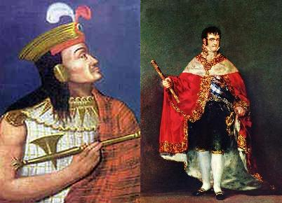 Kings Atahualpa (fro the Incan empire) and Fernando VII (from Spain)